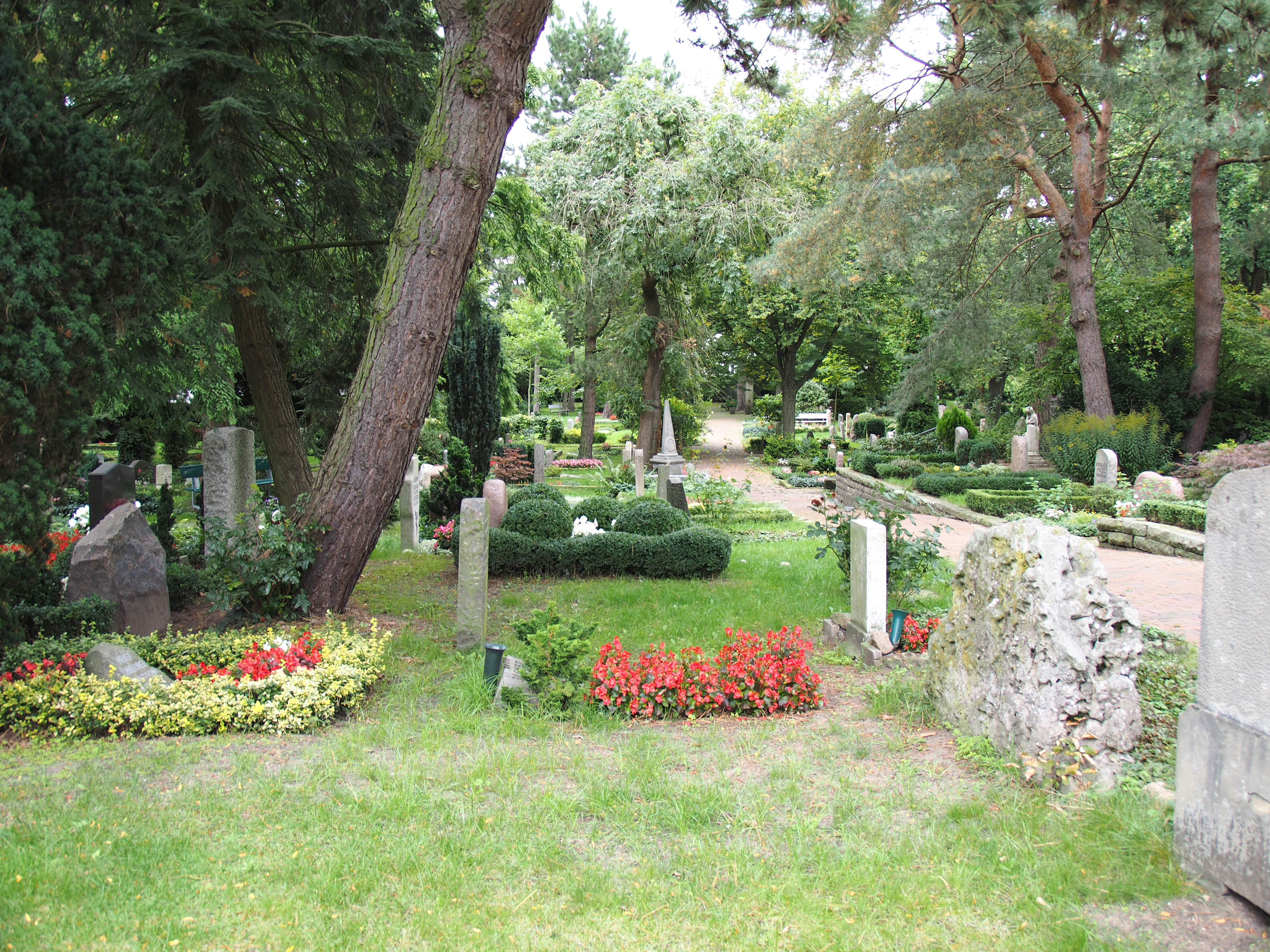 Neuenhäusen cemetery, town district Neuenhäusen, Celle, Lower Saxony, Germany